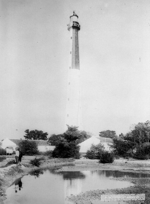 Lighthouse